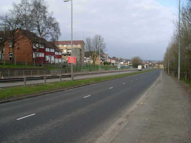 East Kilbride Road Facing the Glasgow direction.